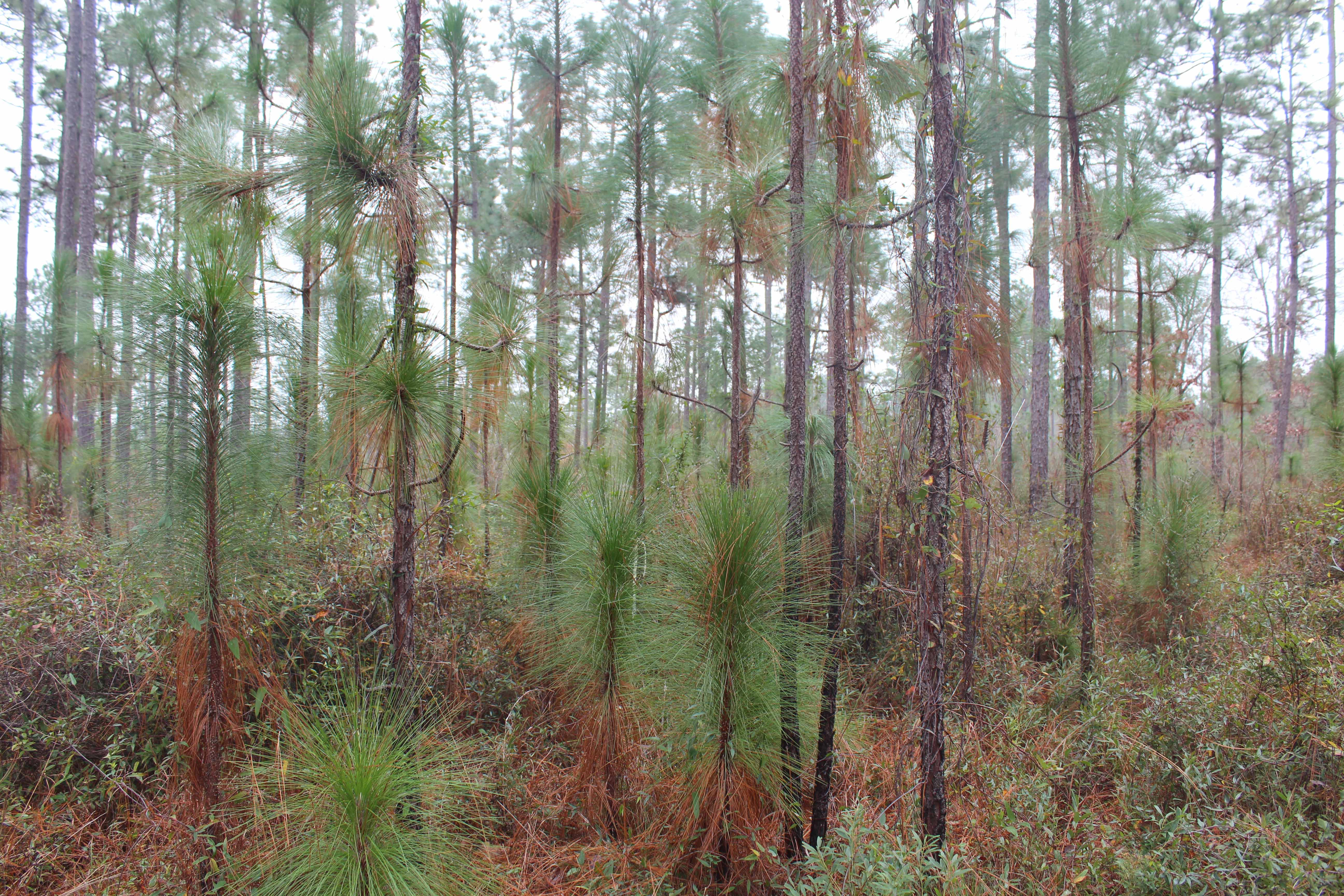 A grove of young Longleaf Pine Pinus palustris in Poplarville, Mississippi.